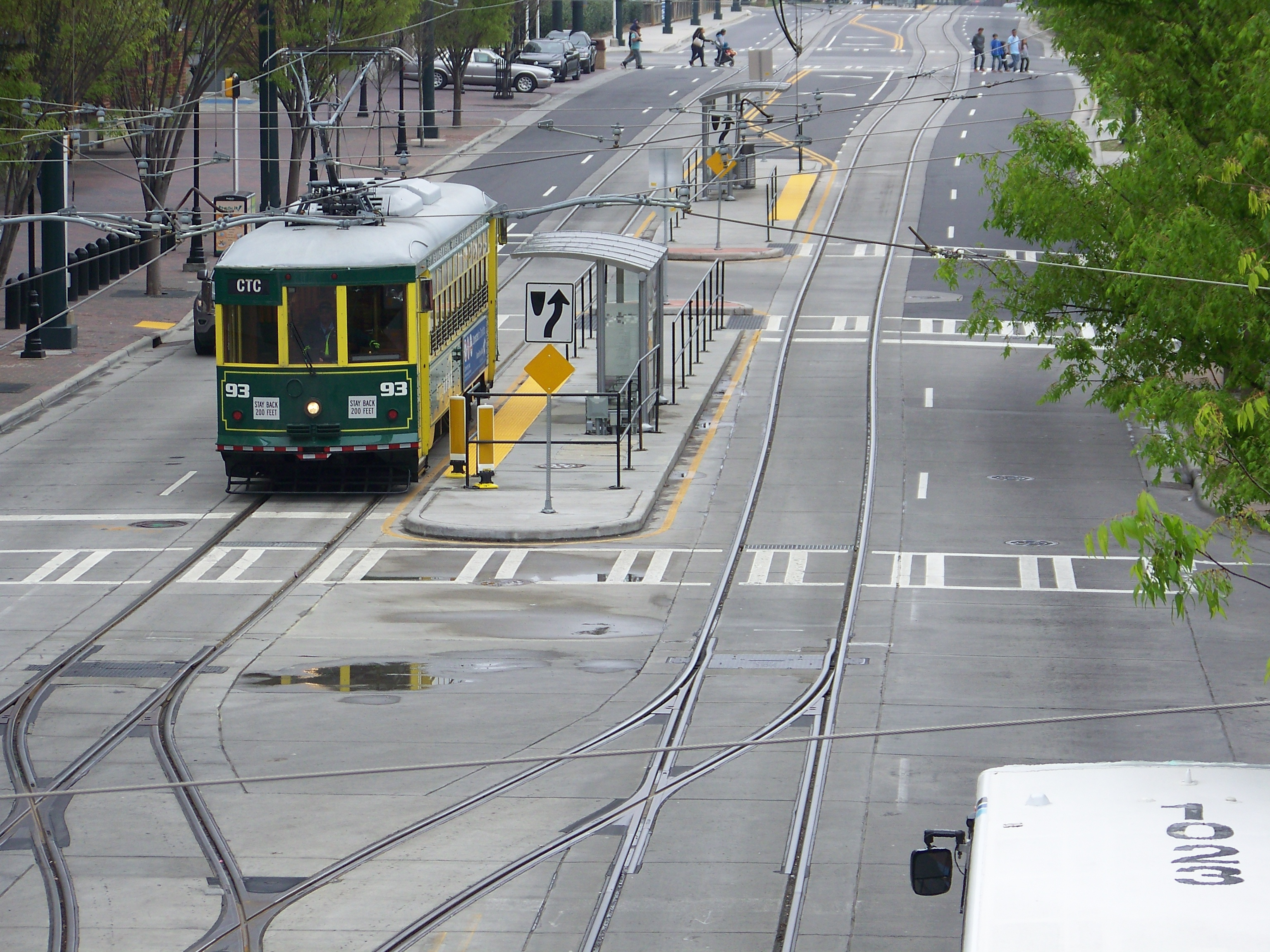 CityLynx Gold Line Birney car 93 on E. Trade Street, at (or starting to pull away from) the streetcar line's last stop, from where car 93 will pull forward into a non-passenger layover area, at Charlotte Transportation Center. This view is from the Lynx light rail's Charlotte Transportation Center/Arena station, which crosses Trade Street on a viaduct.